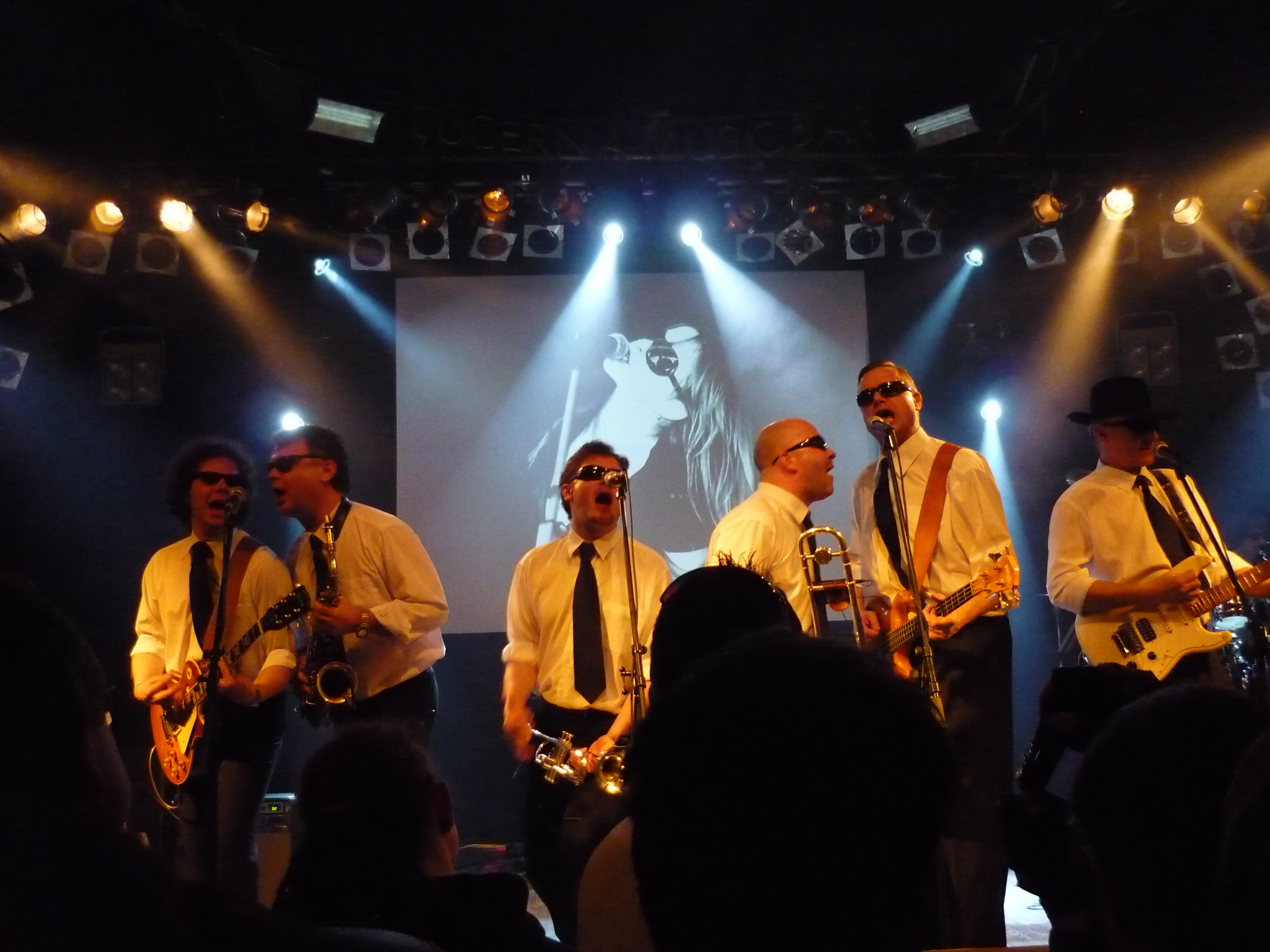 Laura a jeji tygri music band